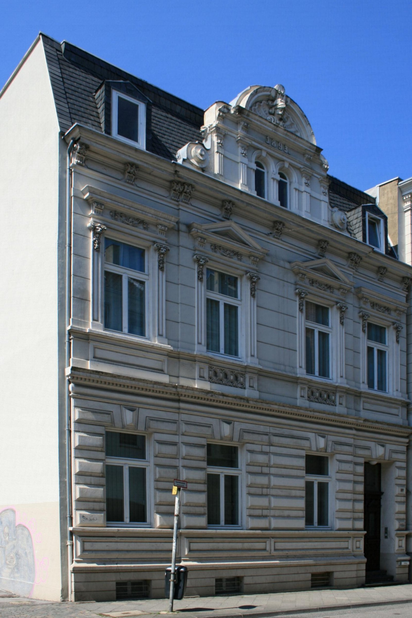 Cultural heritage monument No. R 049 in Mönchengladbach